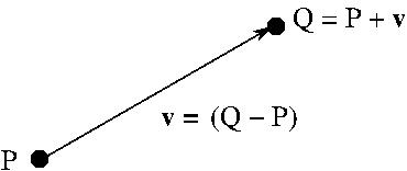 Vector connecting two points in affine space.